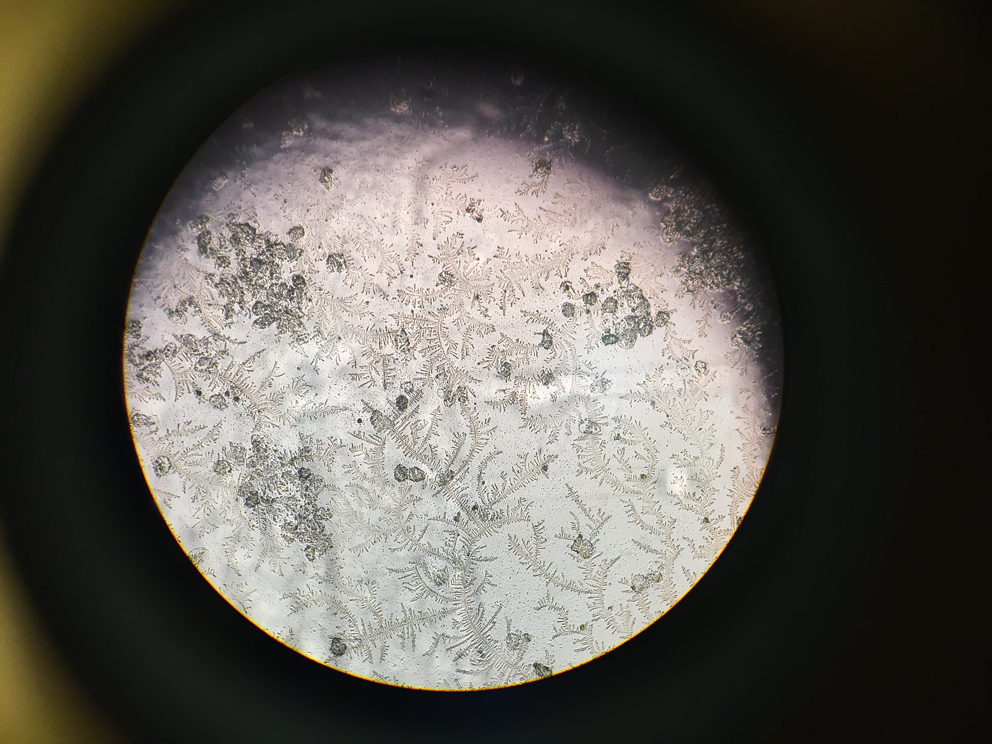 Patient with recent membrane rupture.